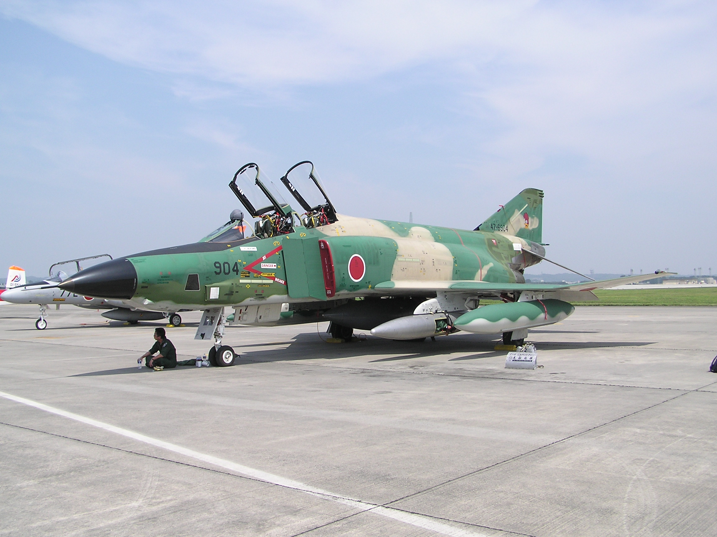 F-4 Phantom(JASDF RF-4E)